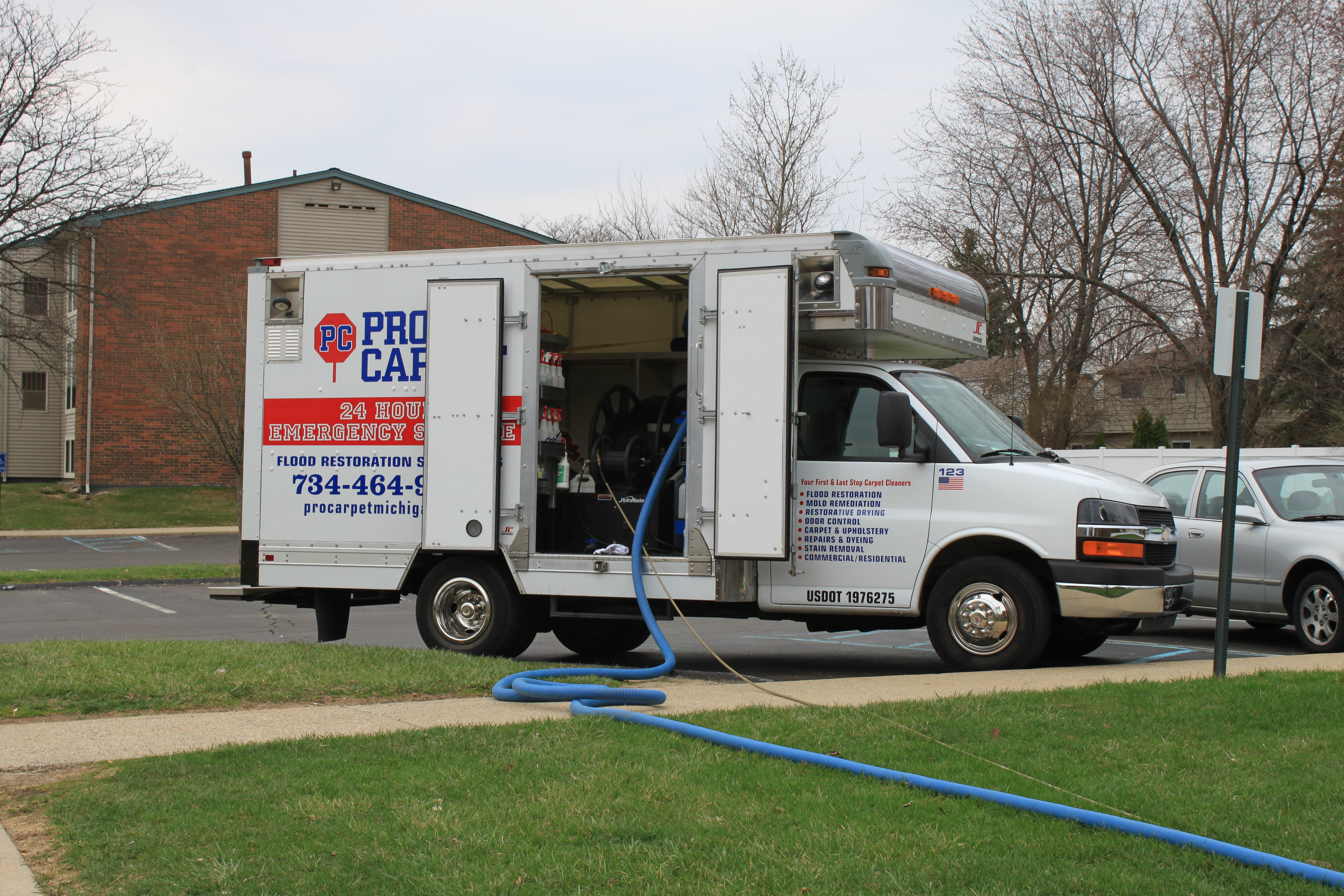 Pro Carpet truck mount steam carpet cleaner, Fairway Trails Apartments, 228 S. Hewitt, Ypsilanti Township, Michigan